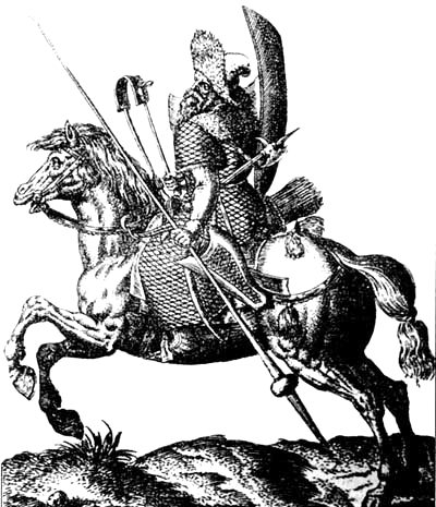 Muscovy cavalryman mid XVI century